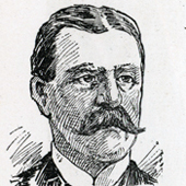 James R. Young, US Representative from Pennsylvania